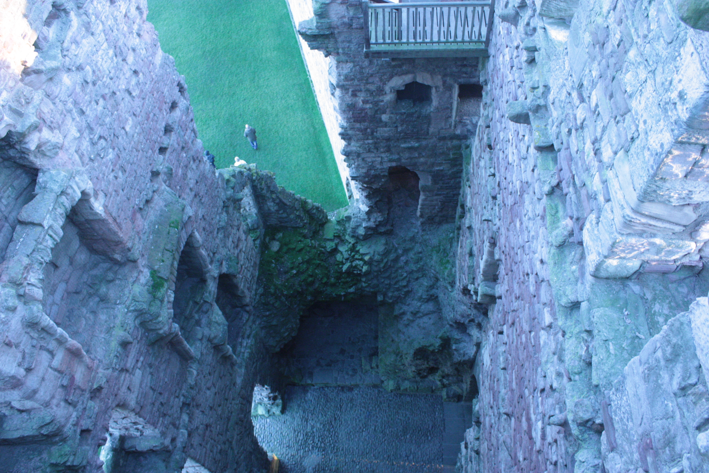 Inside of Tantallon ruins Other information No further information